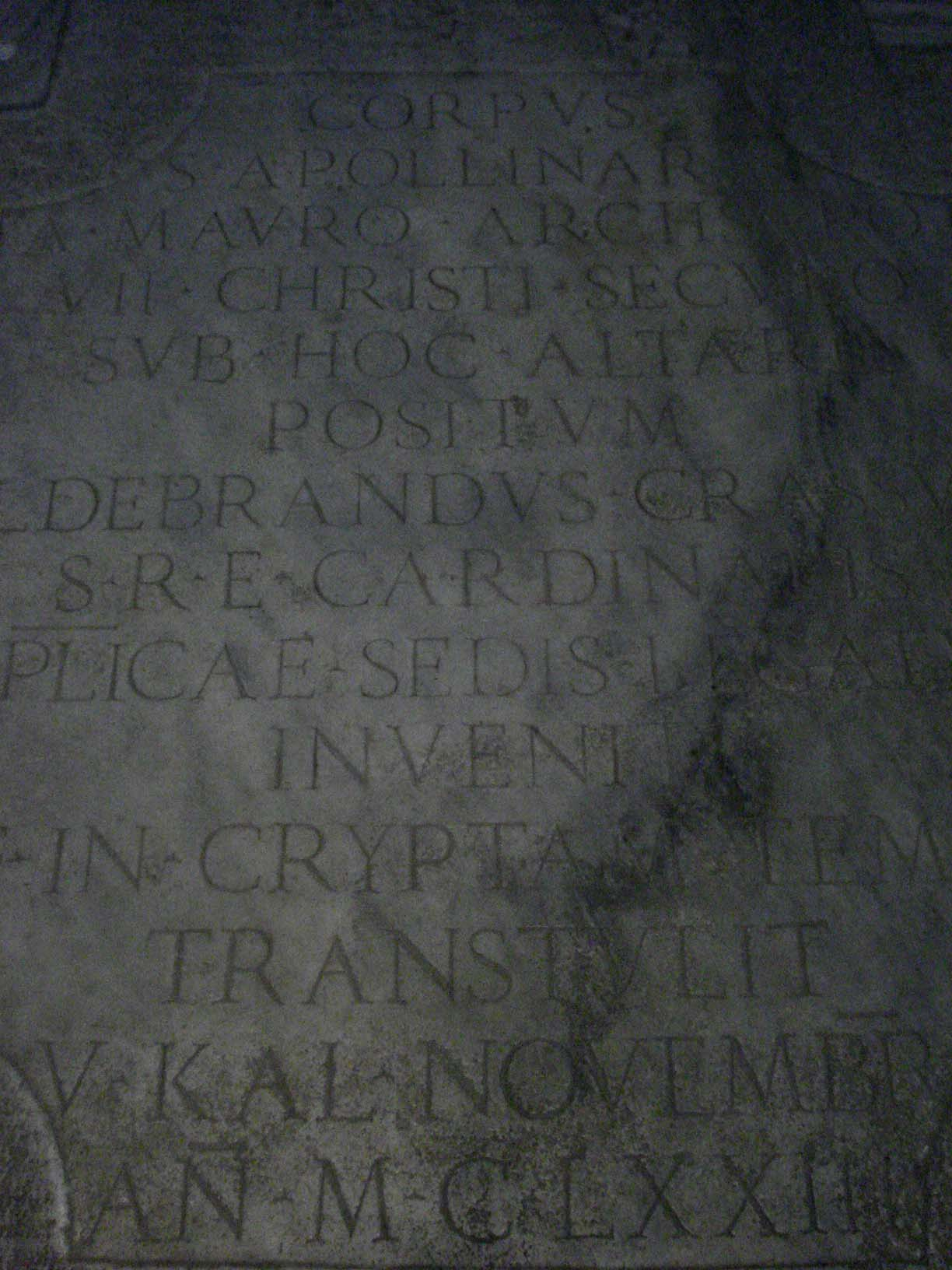 Relics of St Appollinarus were found here